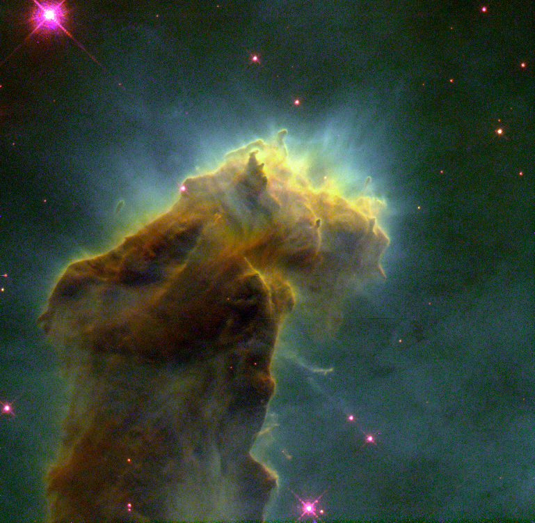 This eerie, dark structure, resembling an imaginary sea serpent's head, is a column of cool molecular hydrogen gas (two atoms of hydrogen in each molecule) and dust that is an incubator for new stars. The stars are embedded inside finger-like protrusions extending from the top of the nebula.Each "fingertip" is somewhat larger than our own solar system. The pillar is slowly eroding away by the ultraviolet light from nearby hot stars, a process called "photoevaporation."As it does, small globules of especially dense gas buried within the cloud is uncovered. These globules have been dubbed "EGGs" -- an acronym for "Evaporating Gaseous Globules." The shadows of the EGGs protect gas behind them, resulting in the finger-like structures at the top of the cloud. Forming inside at least some of the EGGs are embryonic stars -- stars that abruptly stop growing when the EGGs are uncovered and they are separated from the larger reservoir of gas from which they were drawing mass. Eventually the stars emerge, as the EGGs themselves succumb to photoevaporation. The stellar EGGS are found, appropriately enough, in the "Eagle Nebula" (also called M16 -- the 16th object in Charles Messier's 18th century catalog of "fuzzy" permanent objects in the sky), a nearby star-forming region 7,000 light-years away in the constellation Serpens. The picture was taken on April 1, 1995 with the Hubble Space Telescope Wide Field and Planetary Camera 2. The color image is constructed from three separate images taken in the light of emission from different types of atoms. Red shows emission from singly-ionized sulfur atoms. Green shows emission from hydrogen. Blue shows light emitted by doubly-ionized oxygen atoms.